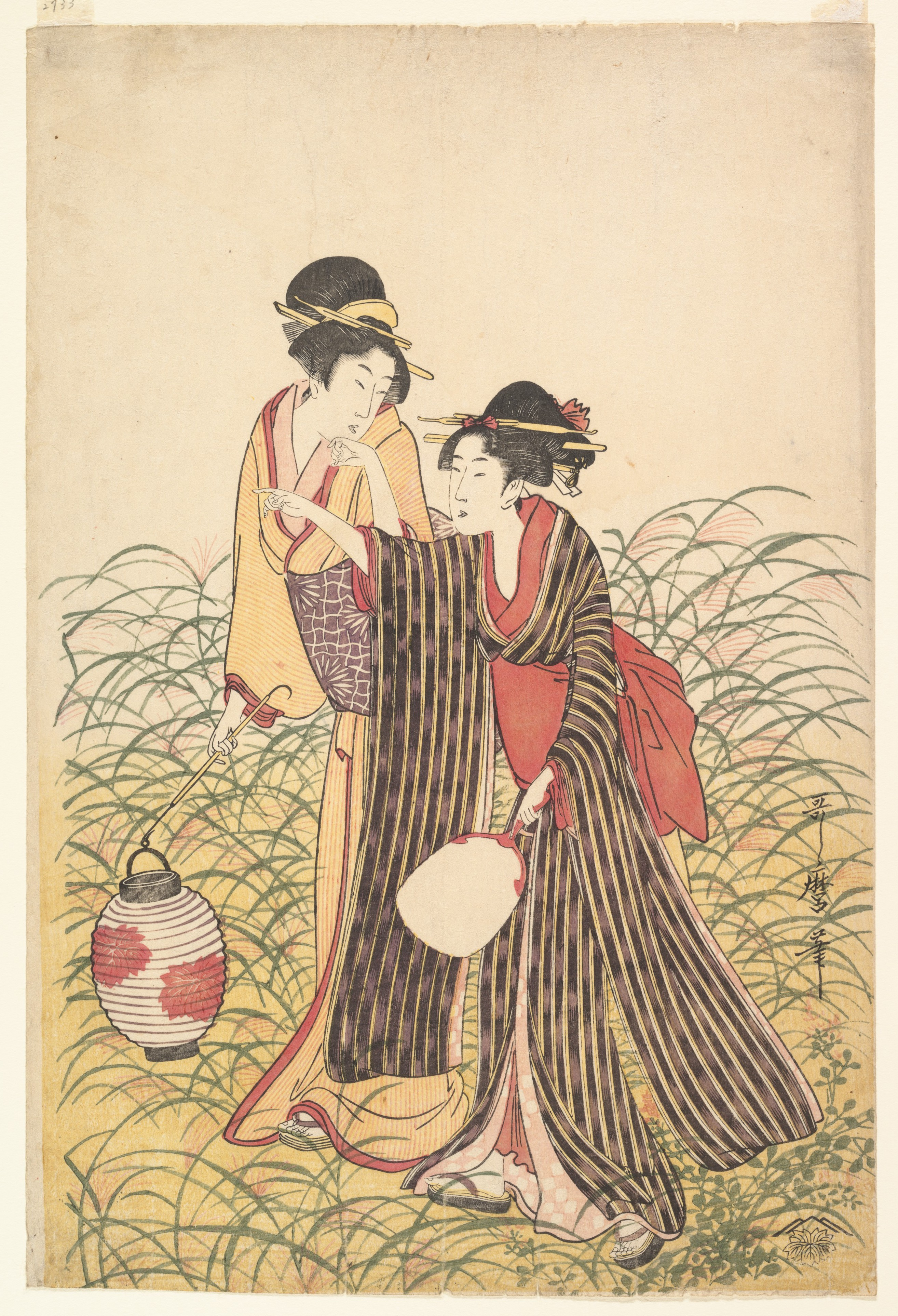 Right panel of three from a triptych ukiyo-e print